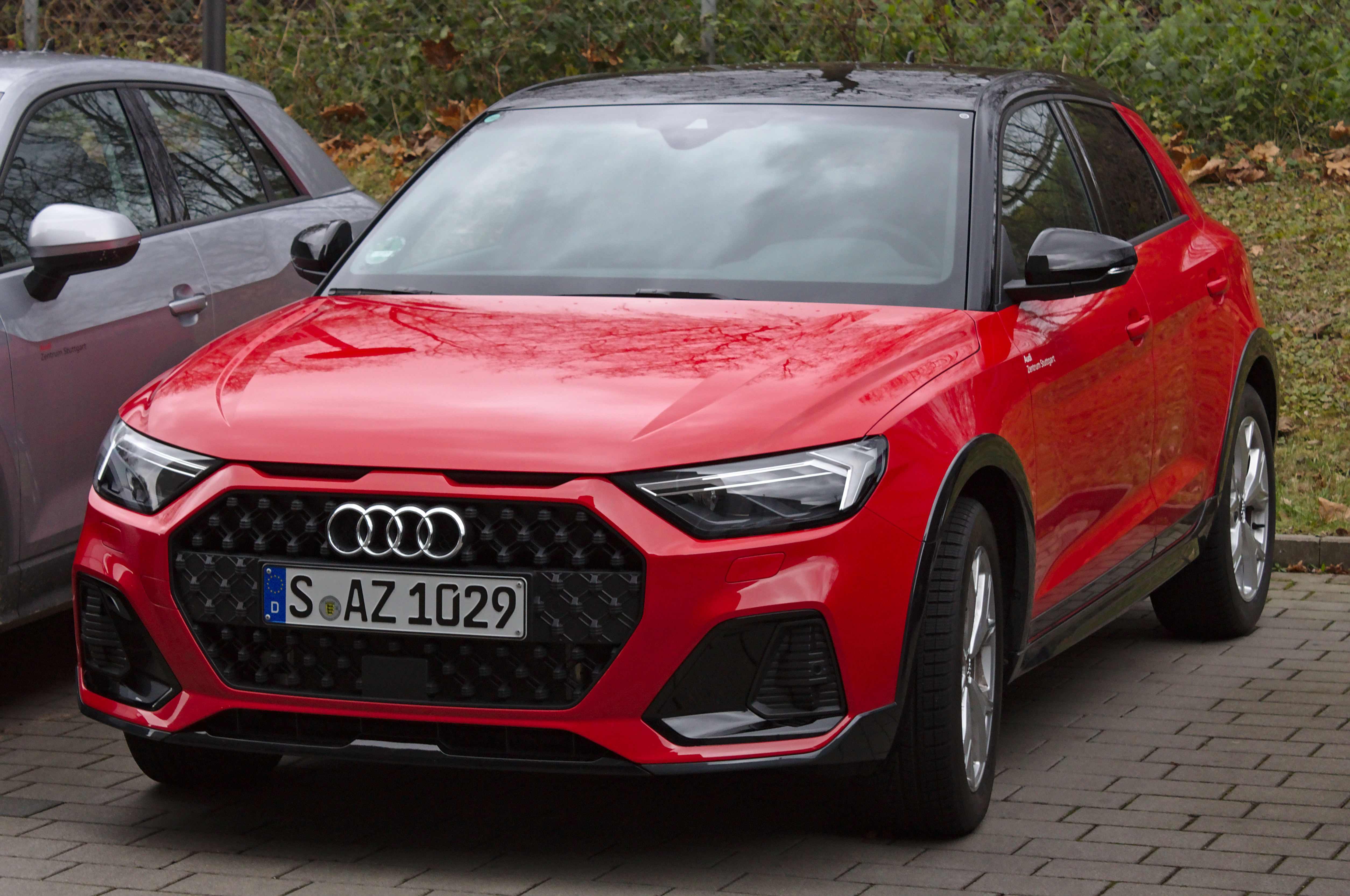 Audi_A1_citycarver in Stuttgart-Vaihingen